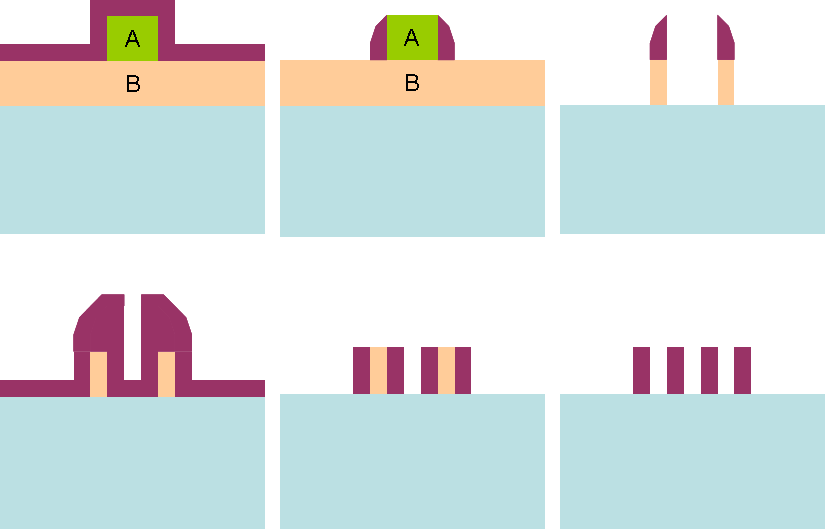 A second round of spacer patterning results in quadrupling of features.